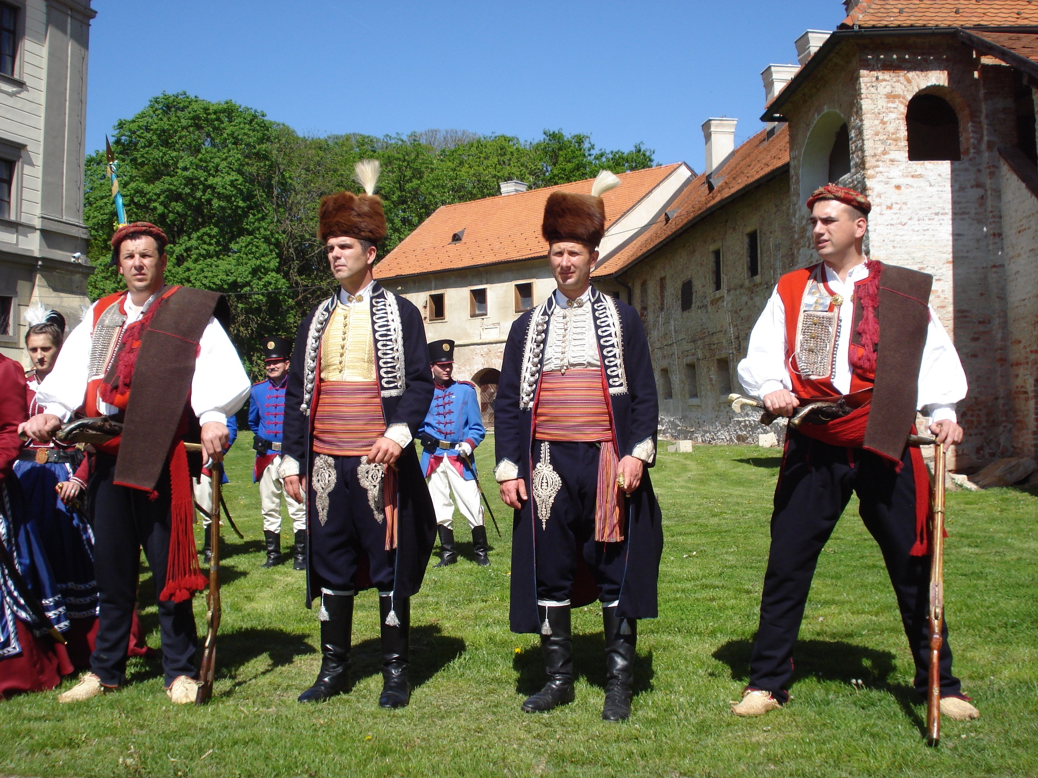 Alkars of Sinj, members of the historical military unit originating from the Town of Sinj, southern Croatia (18th century), during The Medjimurje County Day celebration (30th April 2011) in Čakovec